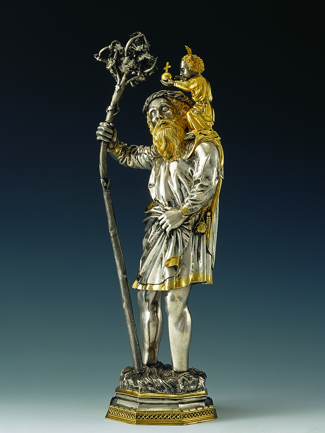 Basle, ca. 1445; Silver, embossed, parcel gilt; height 44.2 cm; Inv. 1933.160.